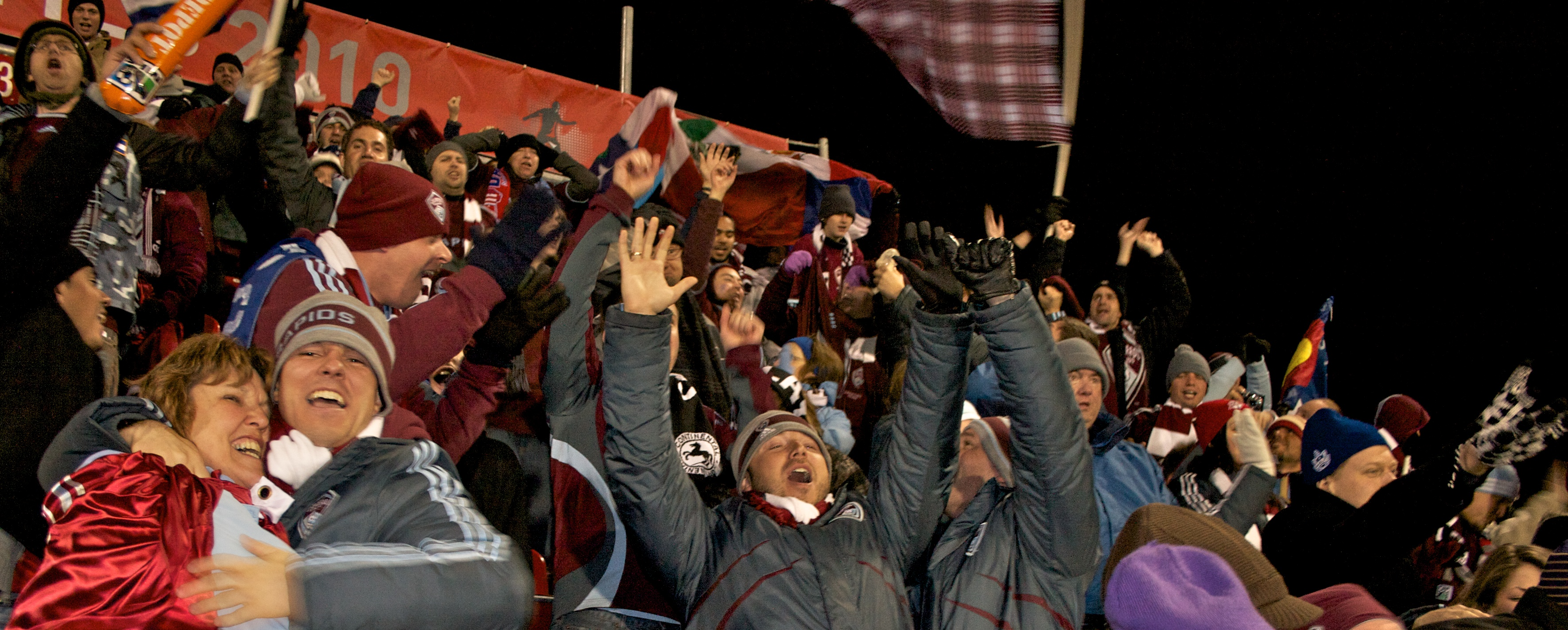 Celebrating a Rapids goal.